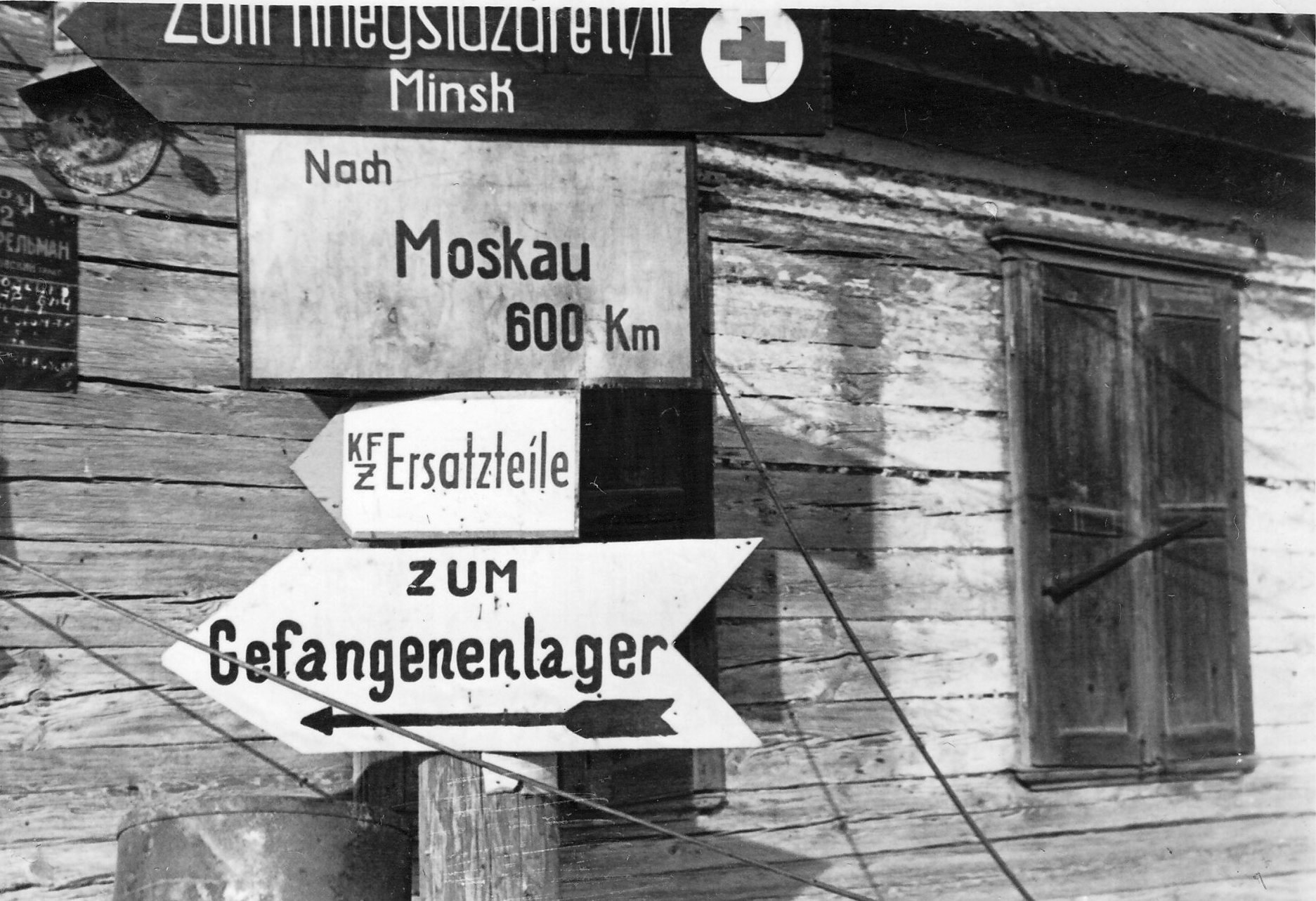 Operation Barbarossa: Signs around Minsk in Bielorussia. The one on the bottom points to POW camp.